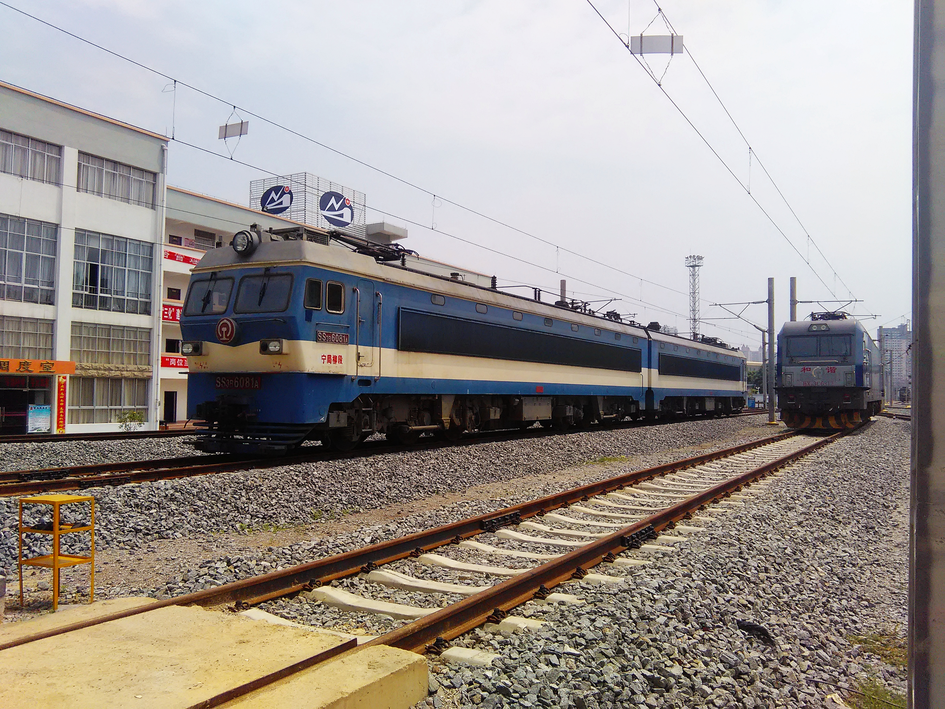 China Railways SS3B 6081 in Nanning Locomotive Depot.